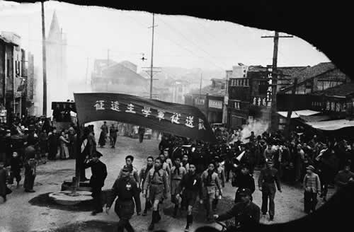 Chungking People applauded the Youth Volunteer Army who protect their motherland in WWII.